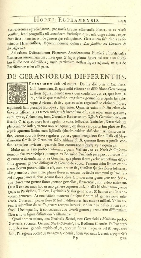 Dillenius' introduction of concept of Pelargonium, in Hortus Elthamensis